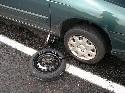 Normal tire, compact spare and jack und car.